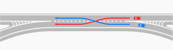 Chart of the weaving traffic